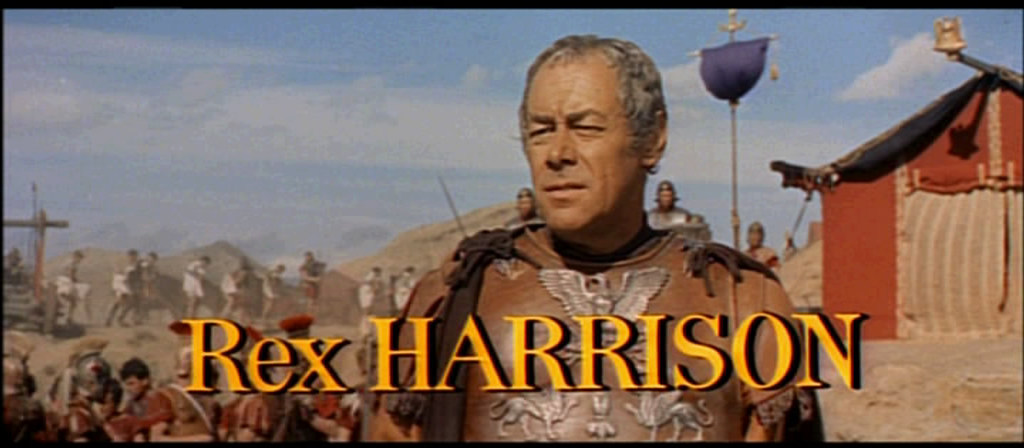 Screenshot of Rex Harrison from the trailer for the film Cleopatra.